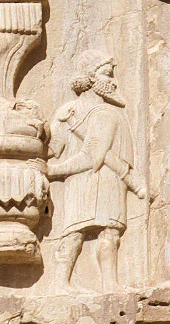 Xerxes detail Carian soldier. Reference:Achaemenid soldiers